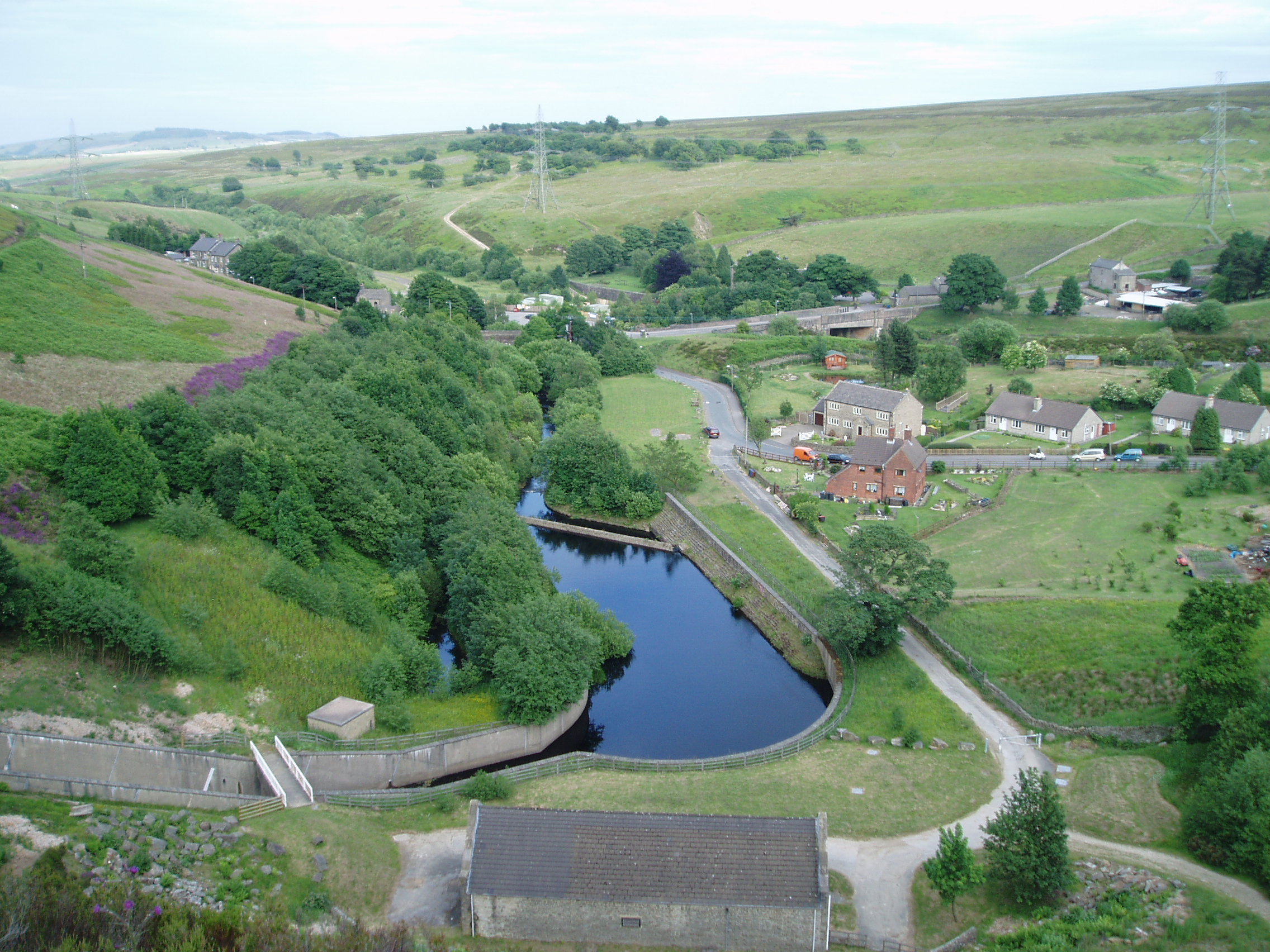 The hydraulic jump pool on the River Don at the foot of Winscar Dam, in South Yorkshire, England